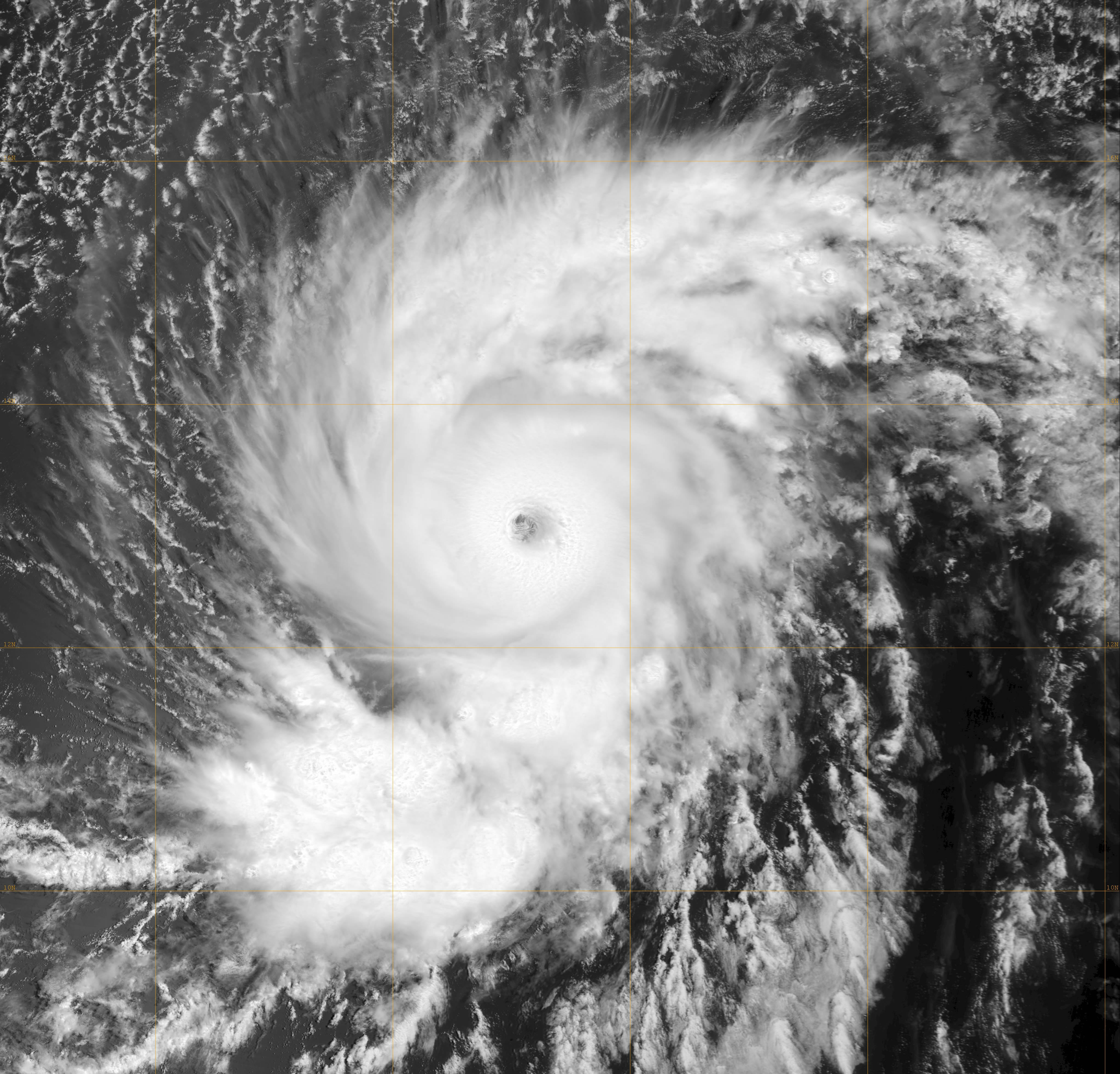 MODIS (Terra satellite) image of Hurricane Flossie on August 11 showing a clear eye.